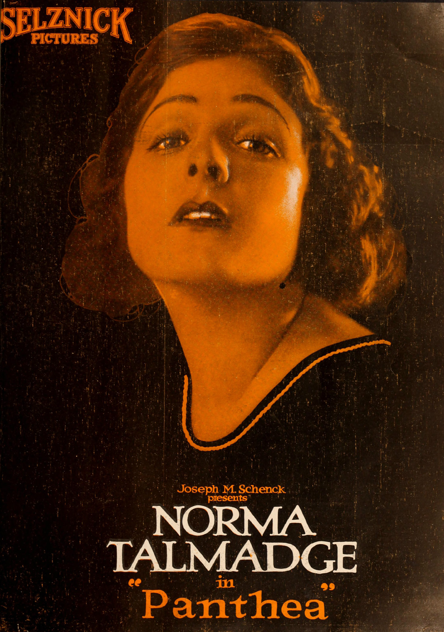 Advertisement for the American drama film Panthea (1917) with Norma Talmadge, from the insert after page 10 of the August 7, 1920 Exhibitors Herald.